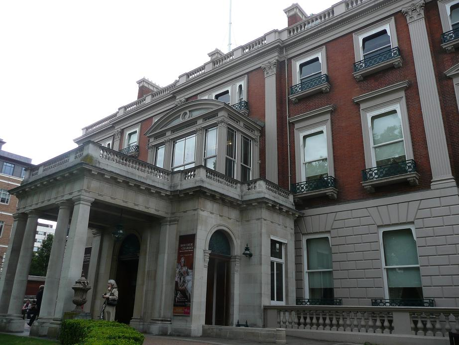 Wallace Collection museum, London